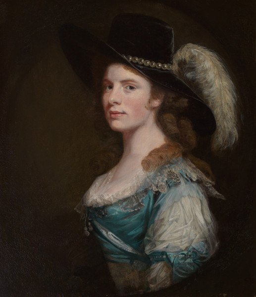 Elizabeth Whitlock by John Downman (attrib only) before 1833